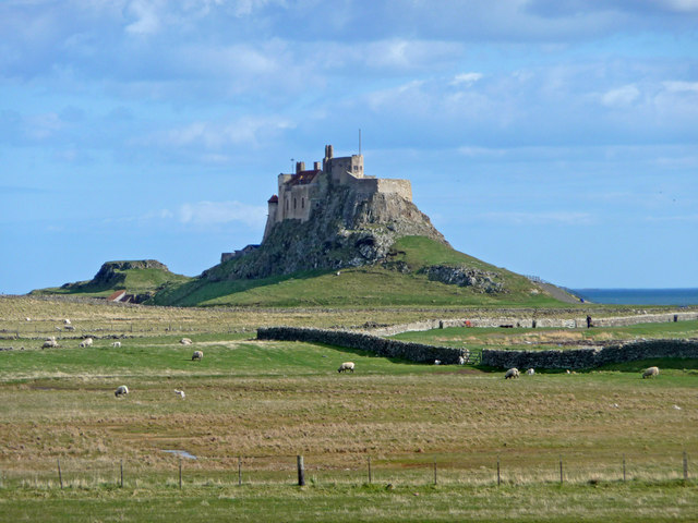 Pasture, Holy Island, Northumberland Sheep feeding on the pasture, with Lindisfarne Castle in the background.